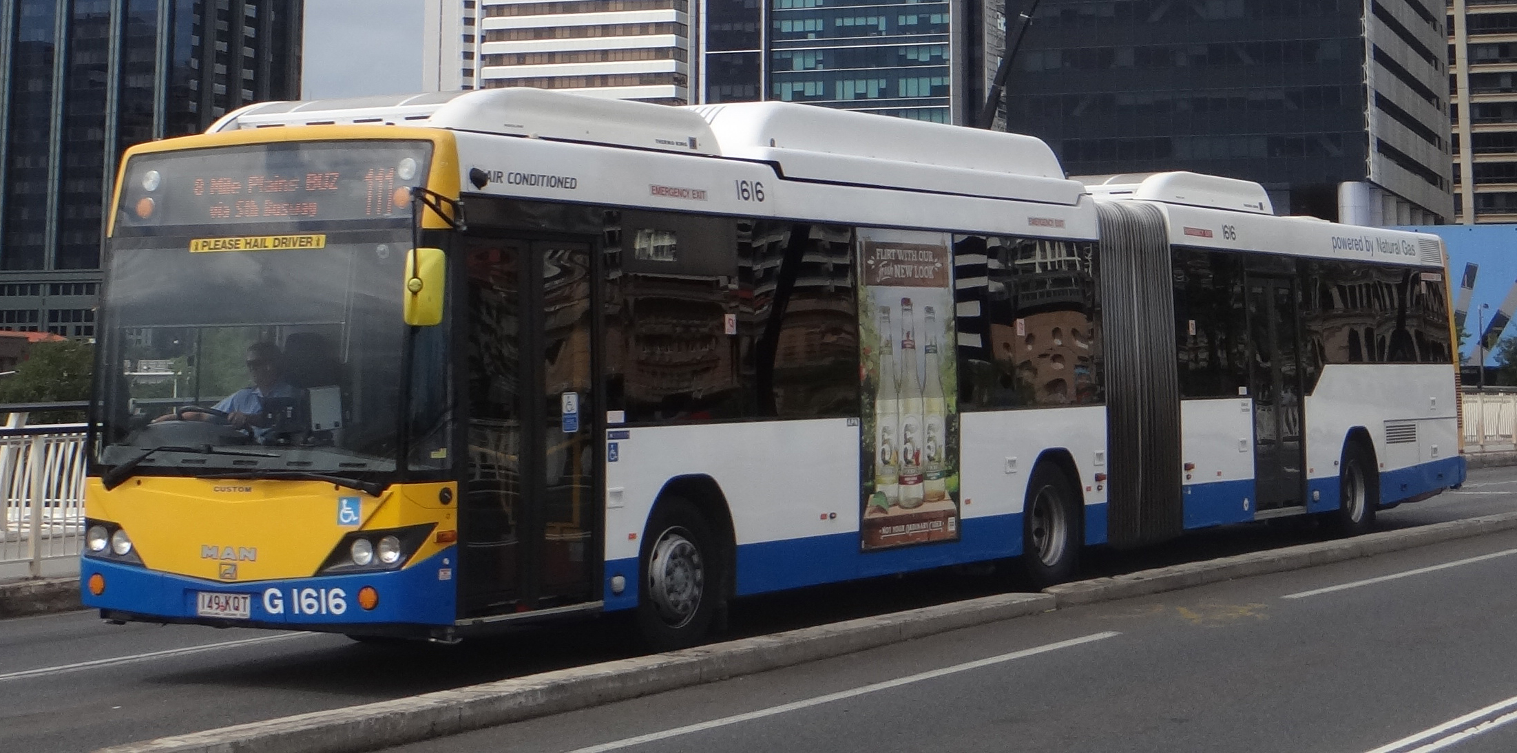 Brisbane transport MAN NG313F CNG A24 with Custom Coaches CB60 body.